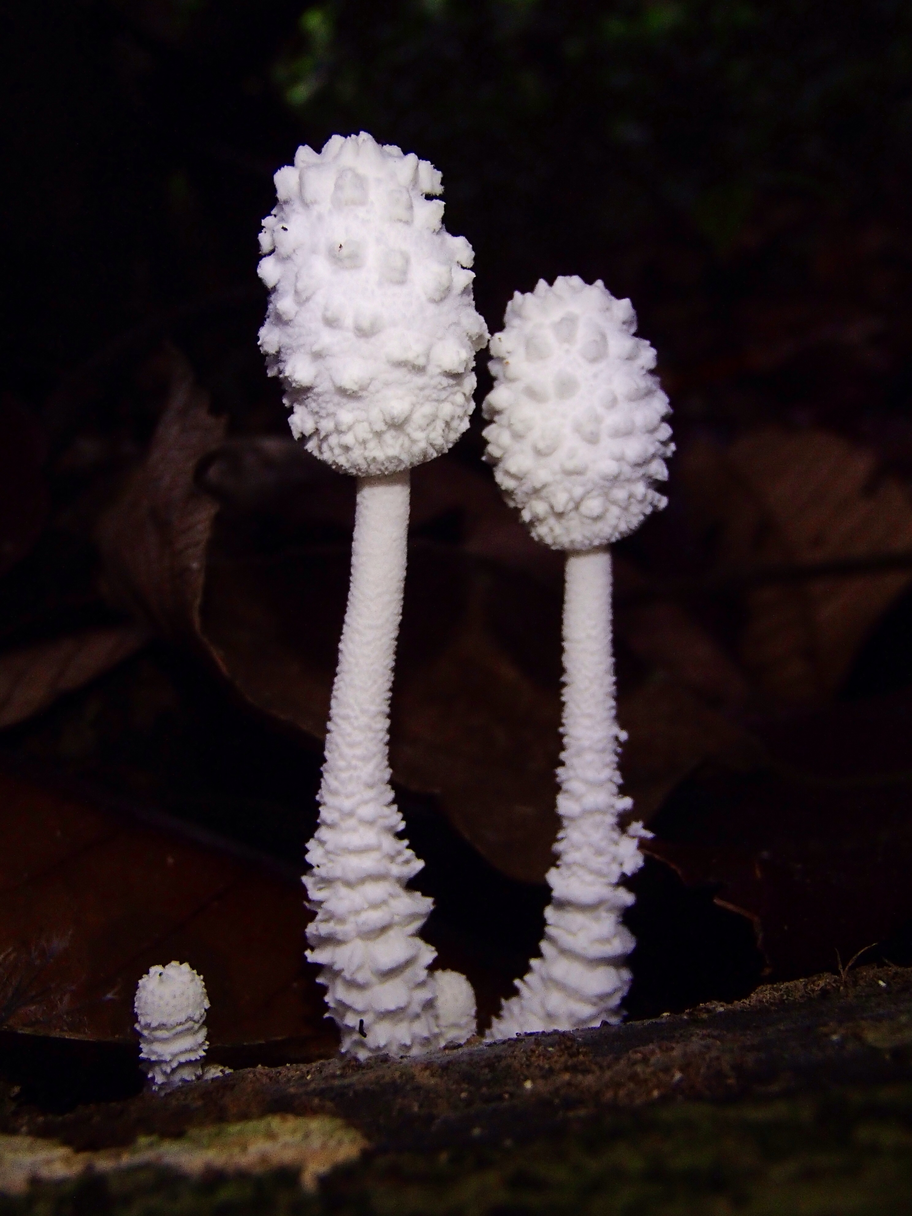 Leucocoprinus cretaceus (Bull.:Fr.) Locq. Image location: Los Amigos Biological Station – CICRA, Manu Biosphere Reserve, Madre de Dios, Peru Recognized by sight For more information about this, see the observation page at Mushroom Observer.